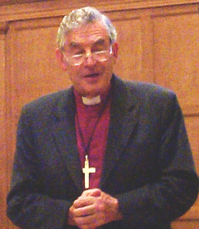 Richard Harries, Baron Harries of Pentregarth, then Bishop of Oxford, speaking at the Friends meeting house, Oxford